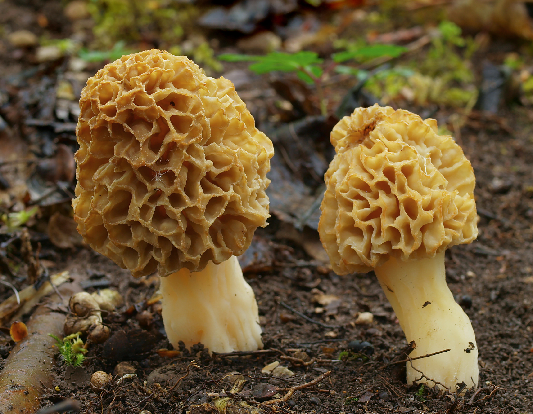 Morel (Morchella esculenta agg.)